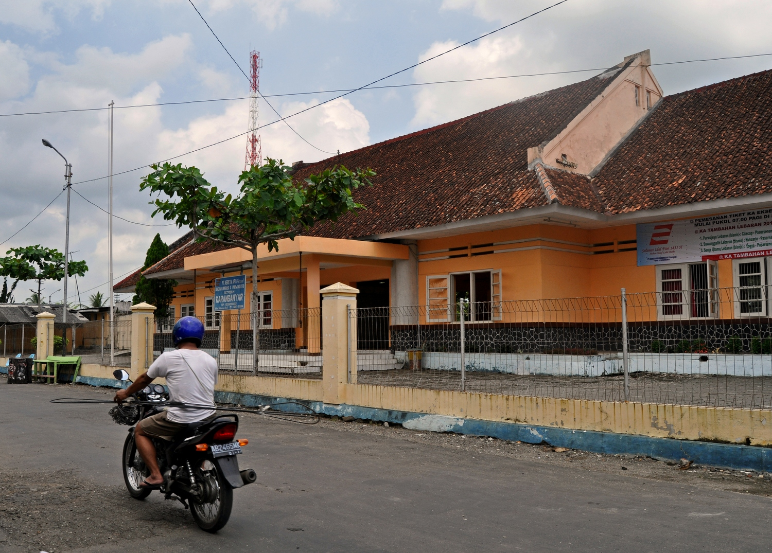 Karanganyar station in Kebumen Regency, Central Java. Front view.